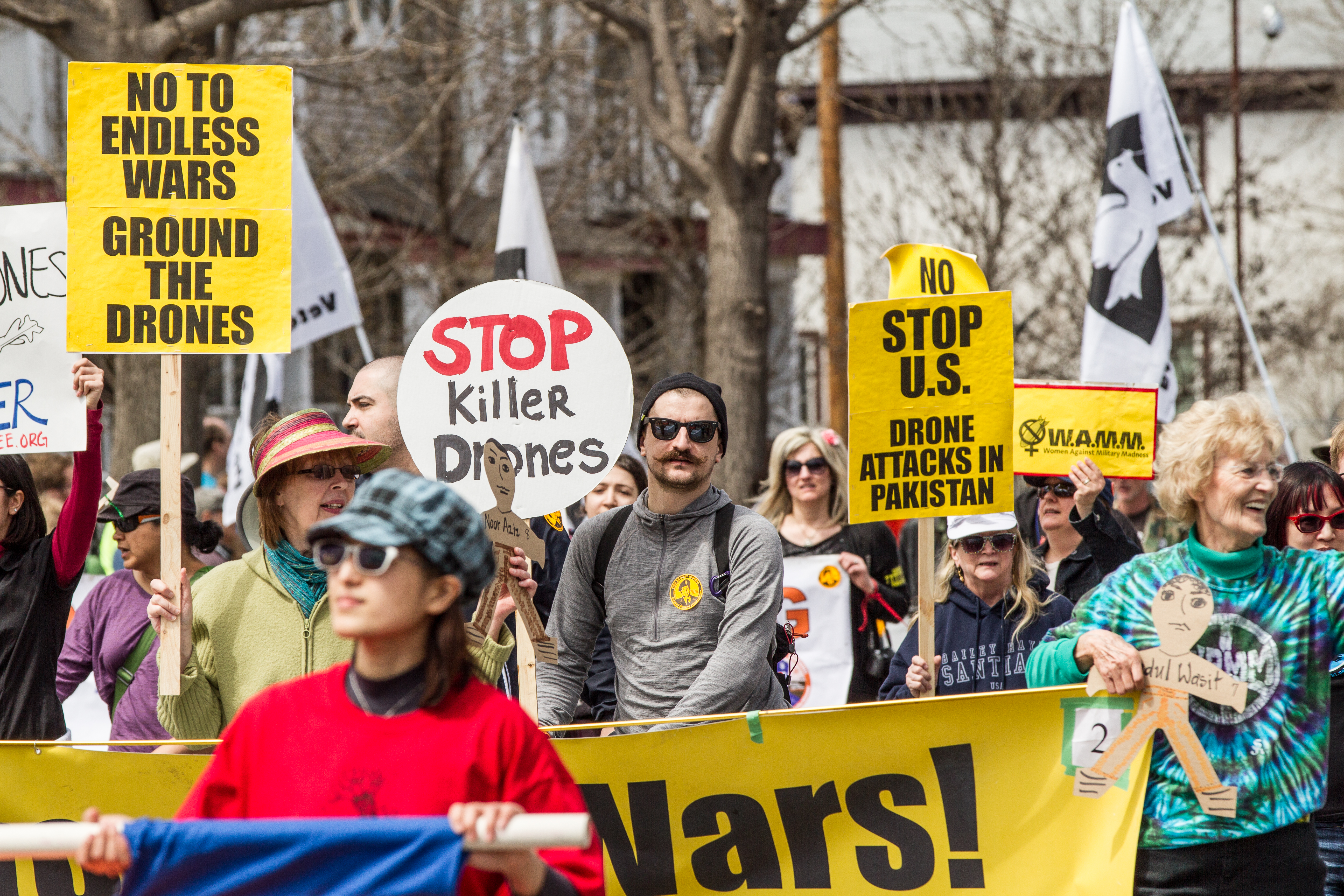 Minneapolis MayDay Parade and Festival 2013